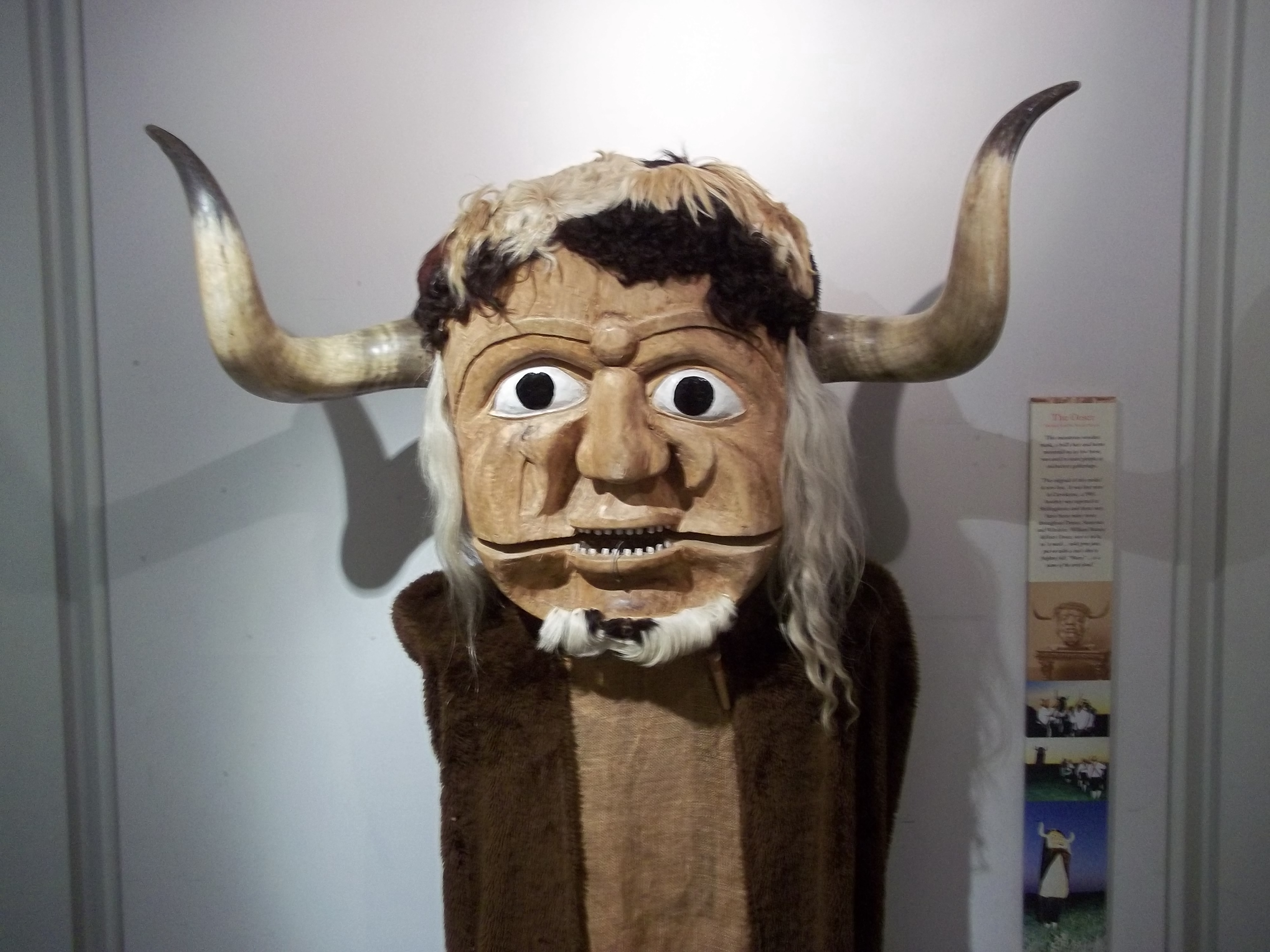 Located in the Dorset County Museum, Dorchester, England. The caption next to it reads: "The Ooser. This monstrous wooden mask, a bulls, hair and horns mounted on its low brow, was used to scare people at midwinter gatherings. The original of this model is now lost. It was last seen in Crewkerne, c. 1905. Another was reported at Shillingstone and there may have been many more throughout Dorset, Somerset and Wiltshire."